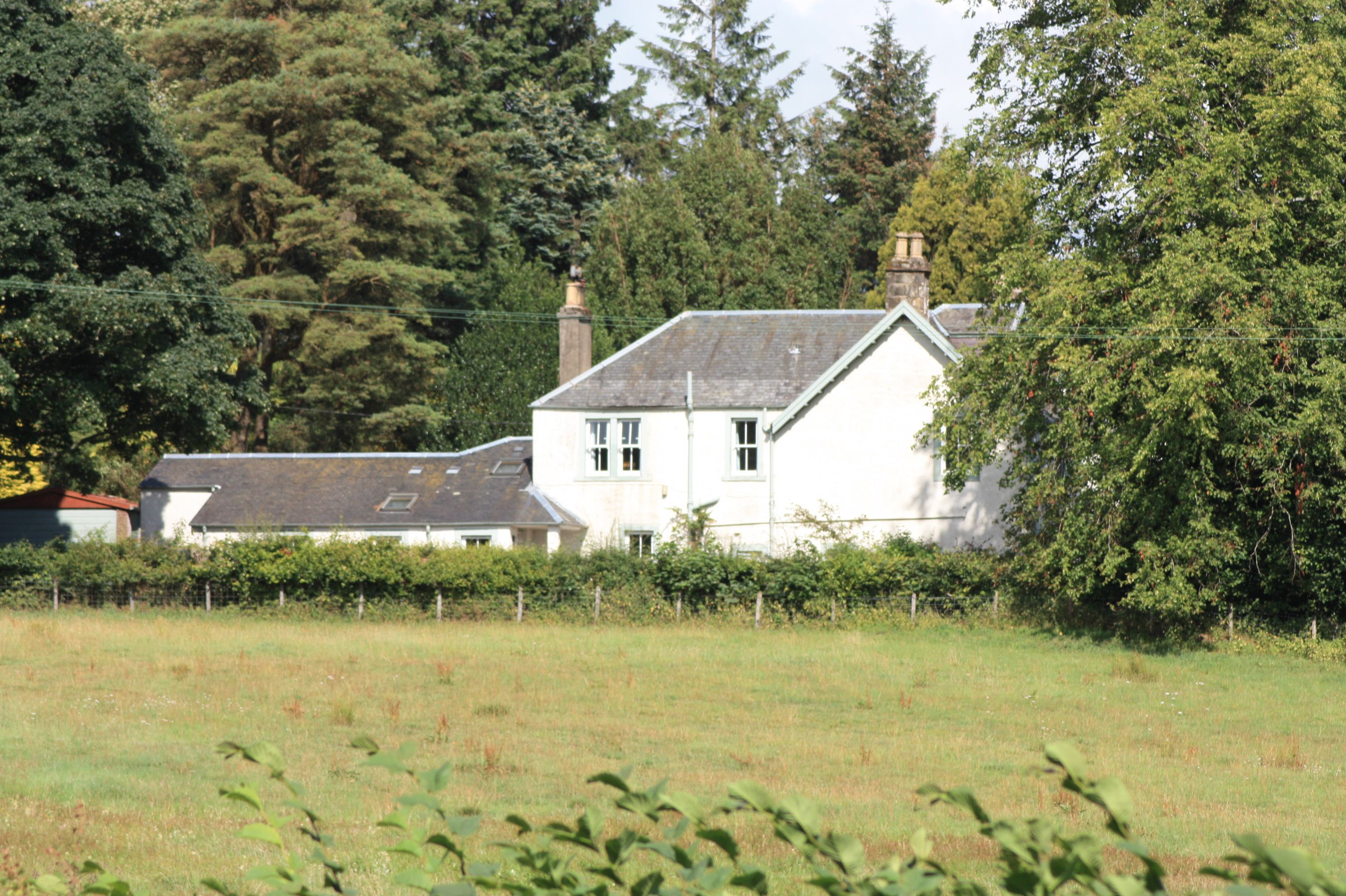 Mosspark, Yetts O' Muckhart